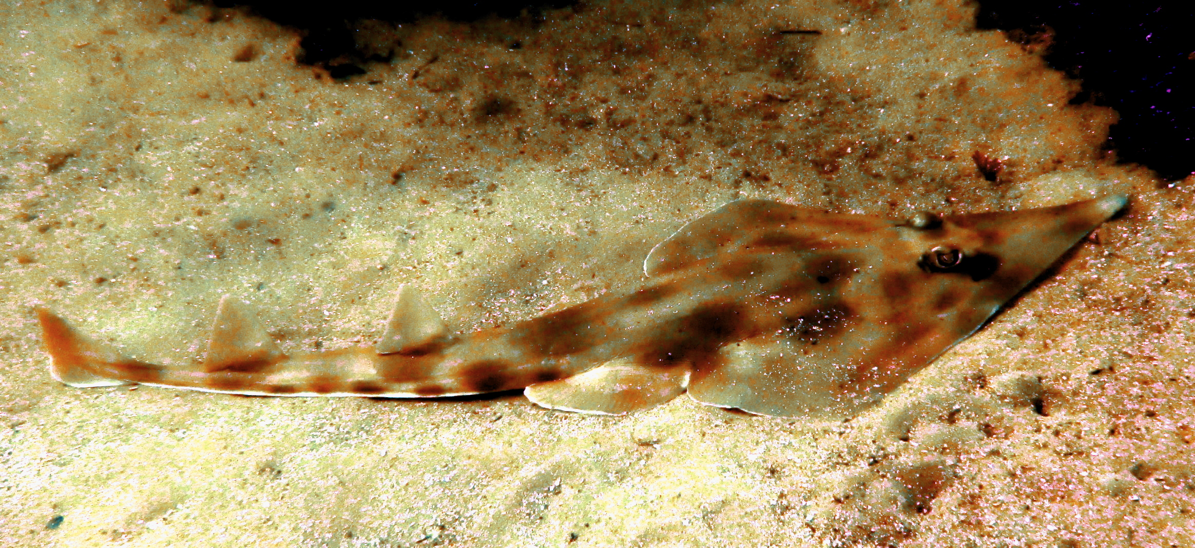 Eastern shovelnose ray (Aptychotrema rostrata) off Sydney